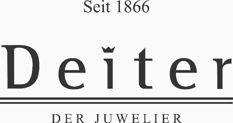 Logo